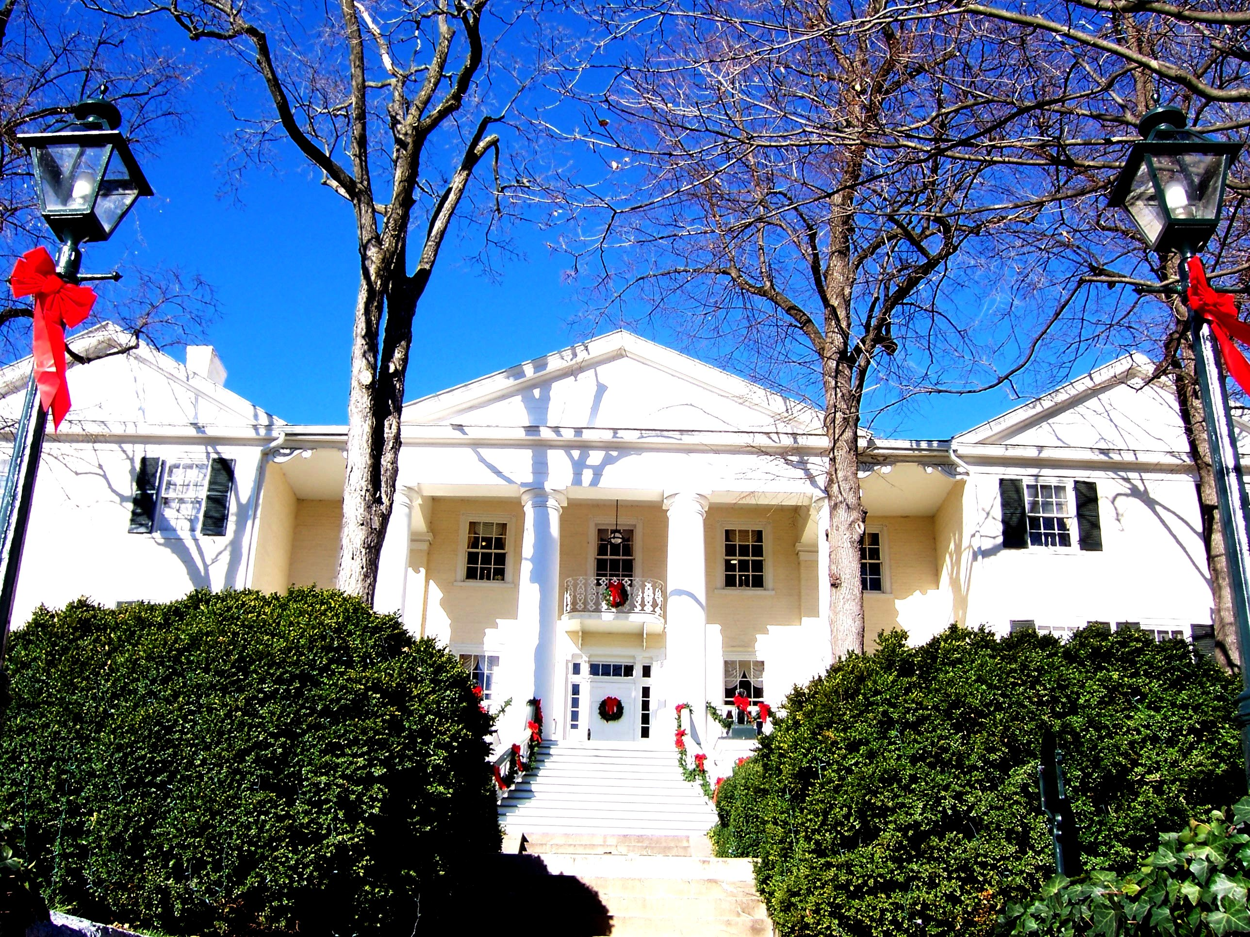 Administrative Building, Mary Baldwin University, at Staunton, Virginia, United States.